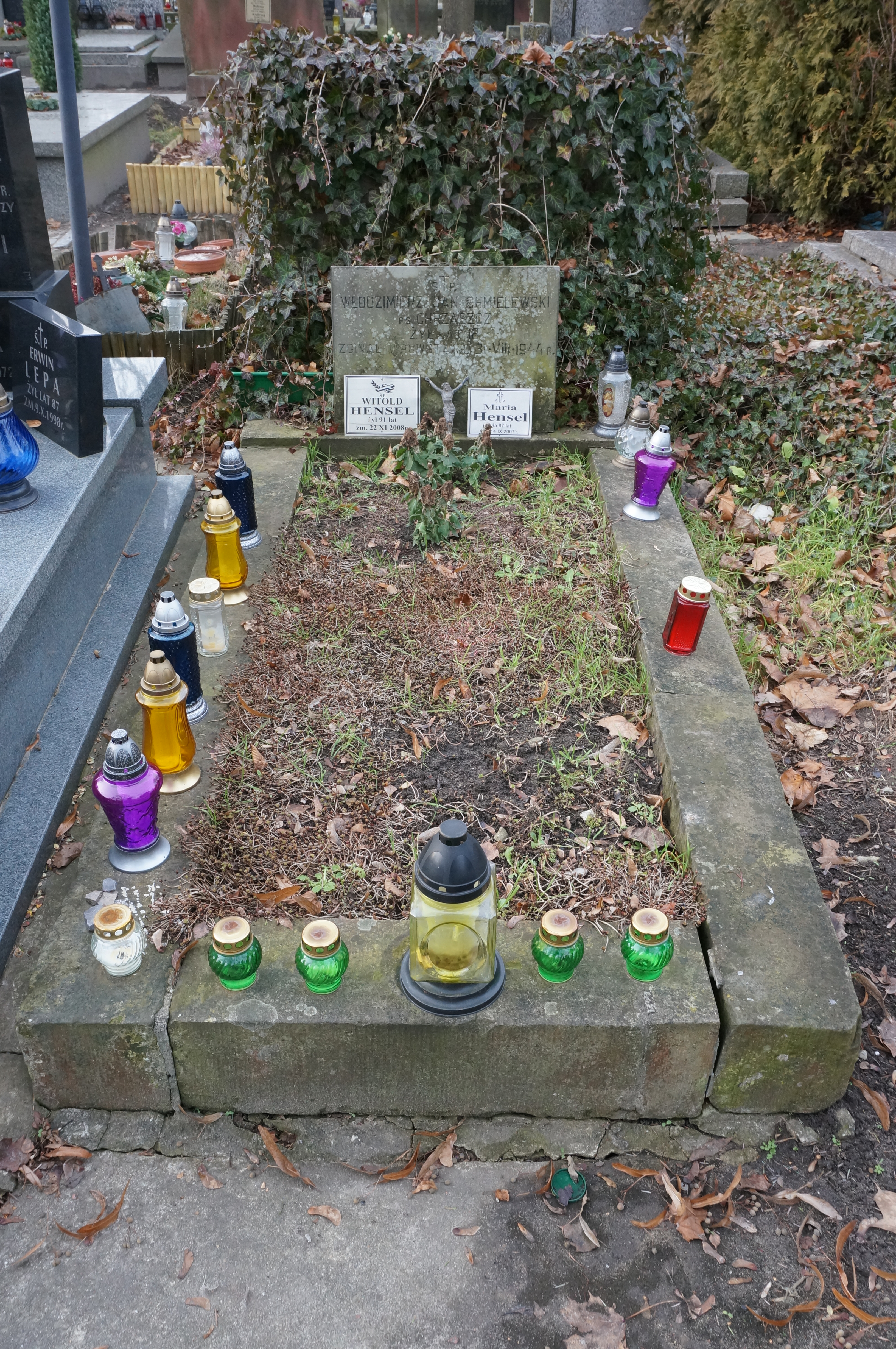 The grave of Maria Hensel at the Powązki Cemetery (section 143, row 3, grave 3)